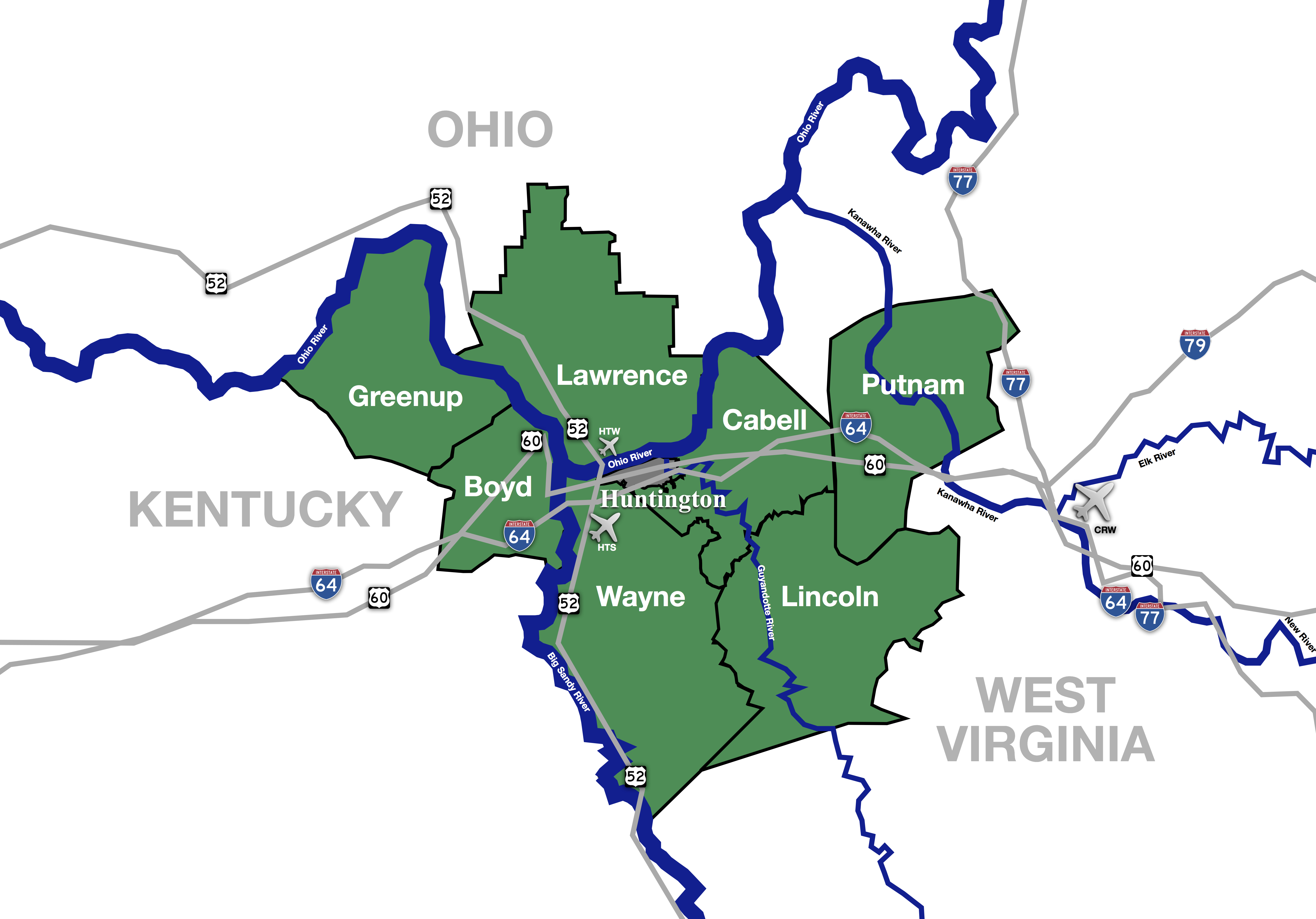 Counties in the Huntington Metropolitan Statistical Area.